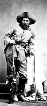 A photograph of Harry Yount, believed to have been taken while he was working as a guide and packer for the Hayden Geological Survey. The photo was probably taken by a photographer working for the U.S. Department of the Interior, which funded Hayden's expeditions.